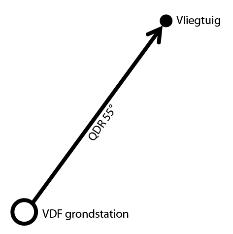 QDR course to aircraft